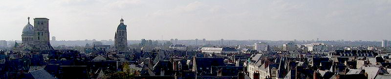 Vue de Tours